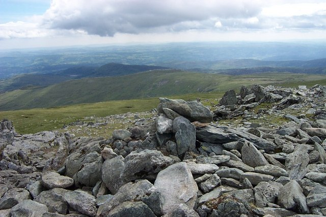 Foel Grach summit cairn. Foel Grach summit cairn at SH 68878 65909 looking East towards Craig Eigiau.